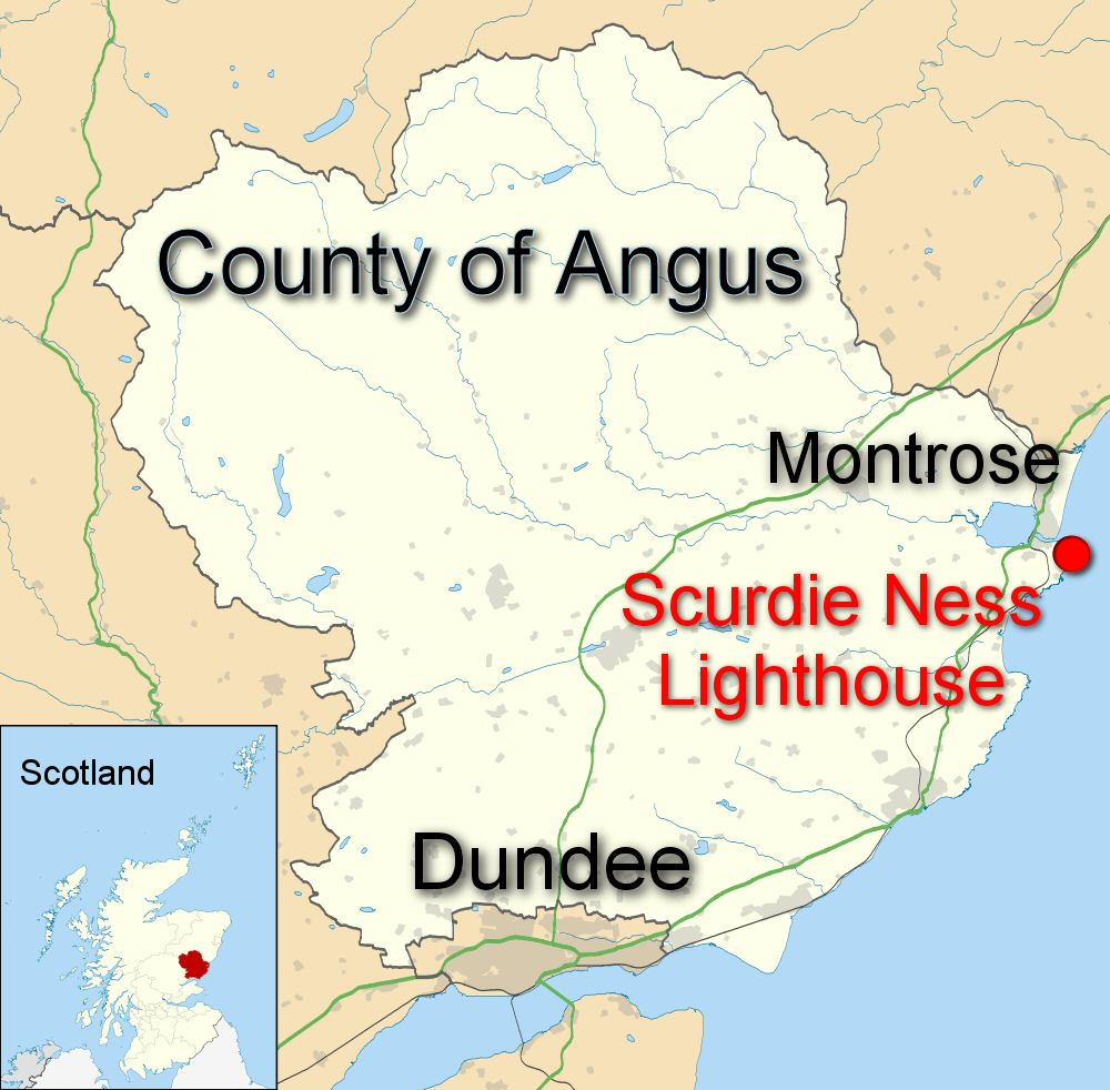 Map of Angus, Scotland showing location of Scurdie Ness Lighthouse.